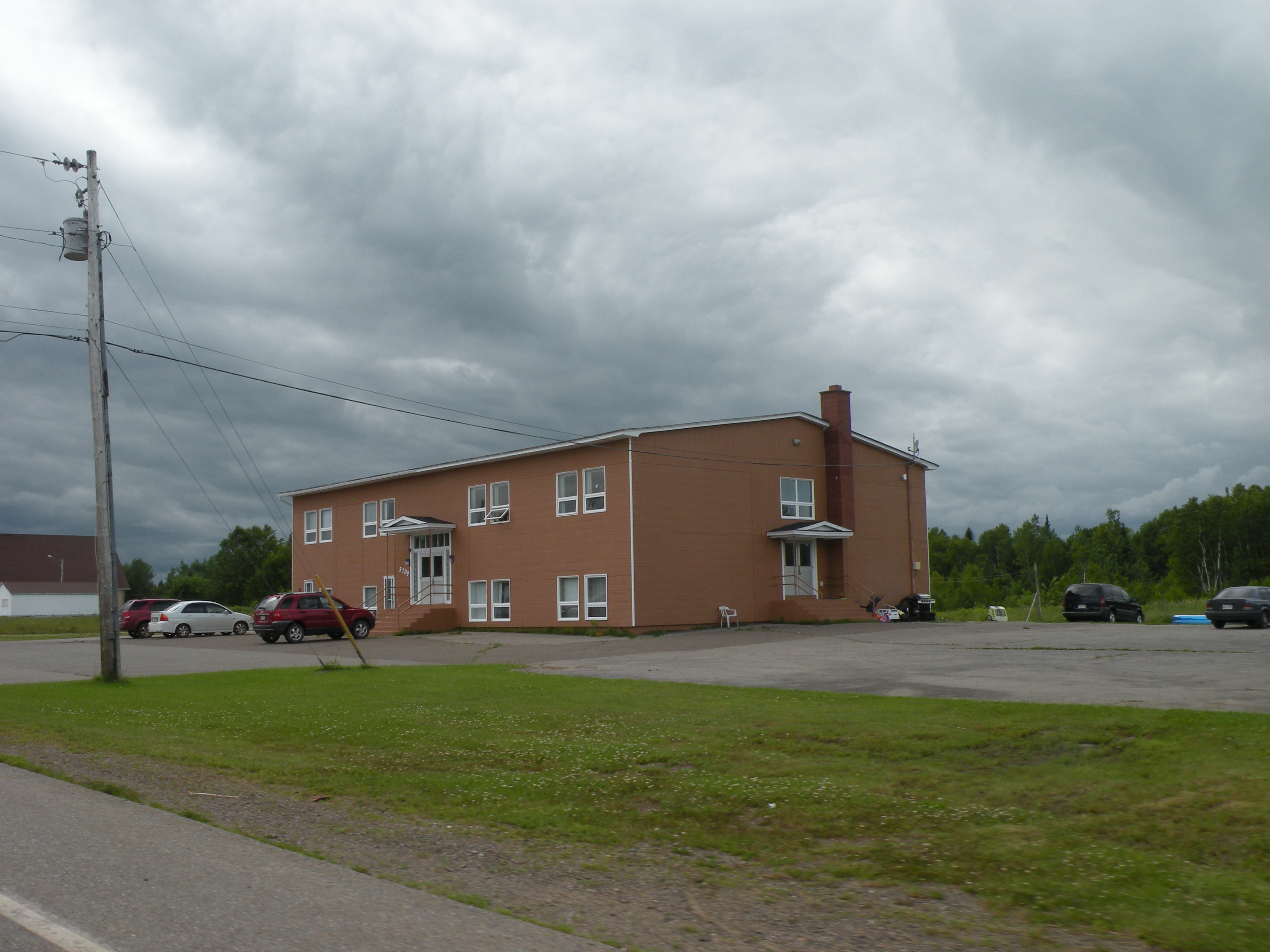 The former school of Notre-Dame-des-Érables, New Brunswick, Canada.